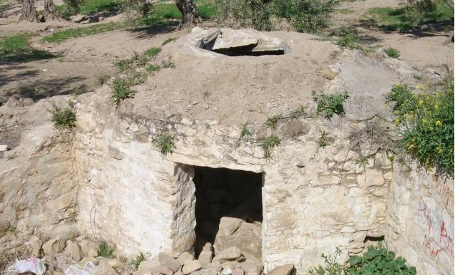 fuente